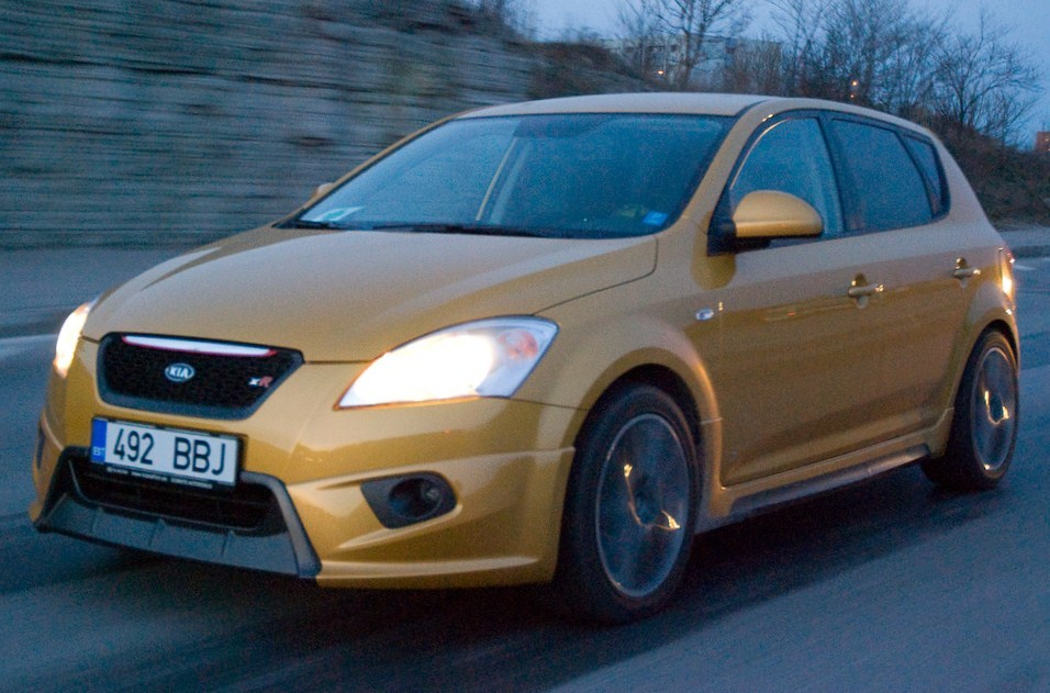 Kia cee'd xR Camera: Nikon D80 License on Flickr (2011-01-11): CC-BY-2.0 Flickr tags: kia, cee'd, car, auto, Laagna tee